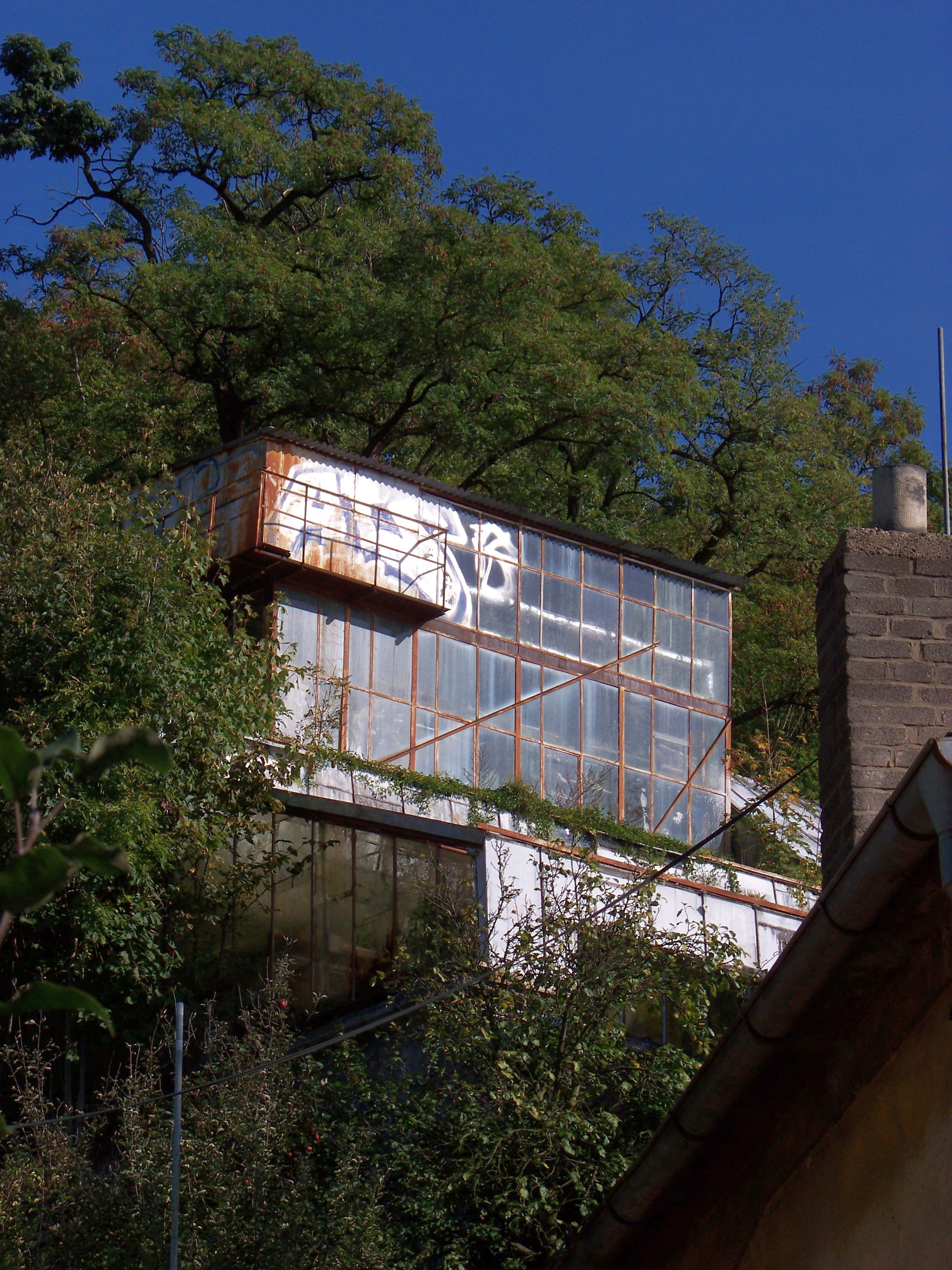 Prague-Malešice, the Czech Republic. Pod Táborem street, greenhouses of the botanical garden.